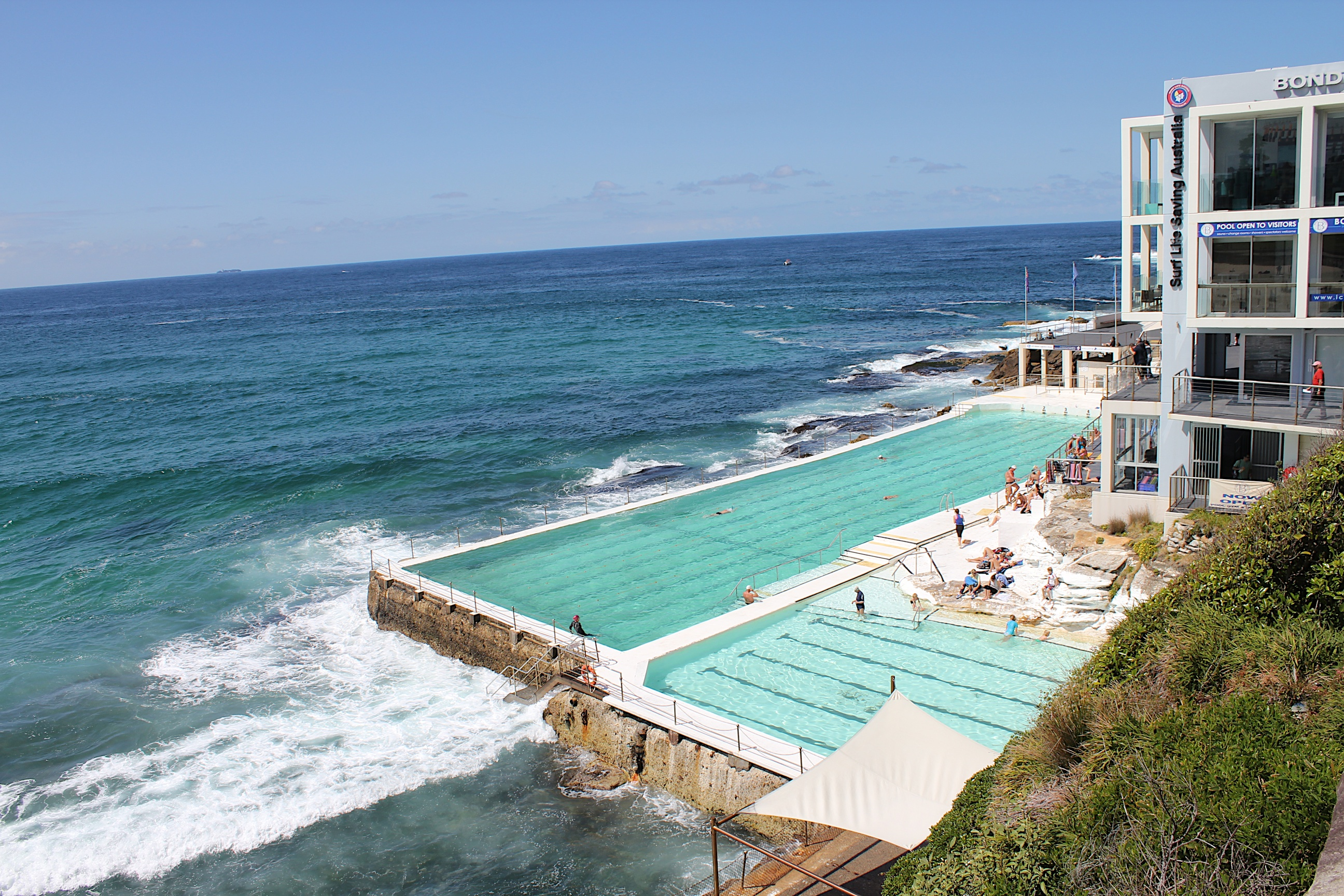 Swimming pools at Bondi Icebergs